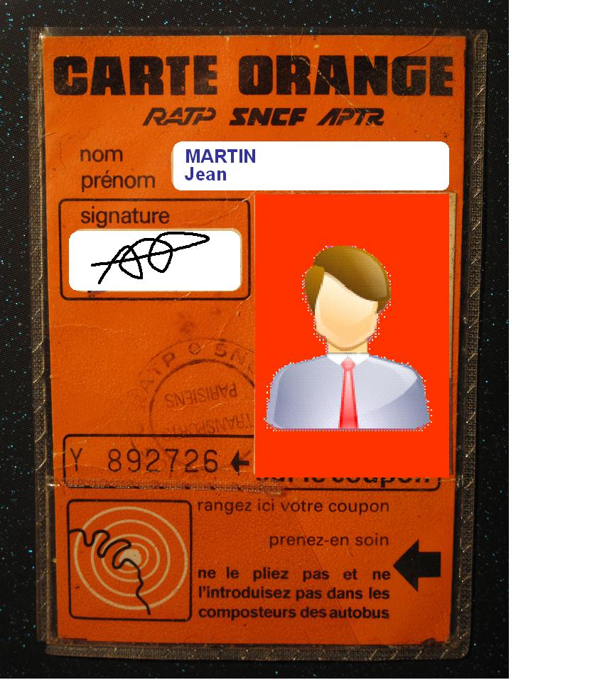 Original enveloppe of the "carte orange" (=orange card) for the metro of Paris.